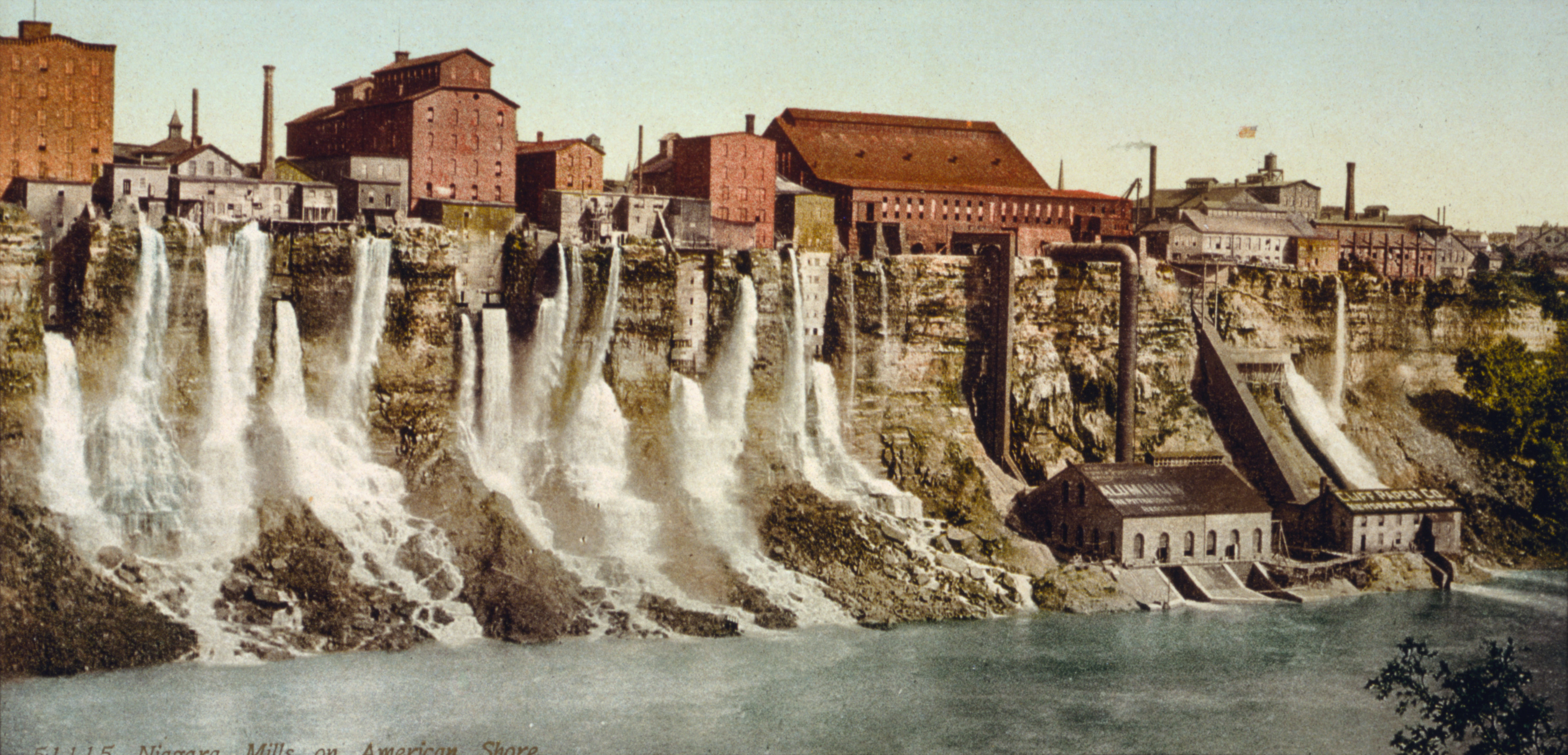 Photochrom print of industrial plants along the Niagara River, approximately ½ mile down river of the American Falls.[1]